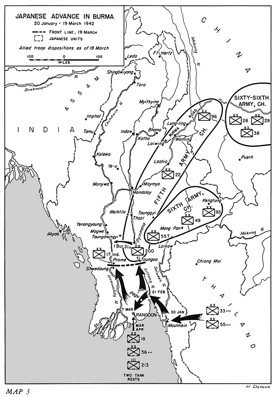 Japanese advance in Burma, 20 January-19 March 1942